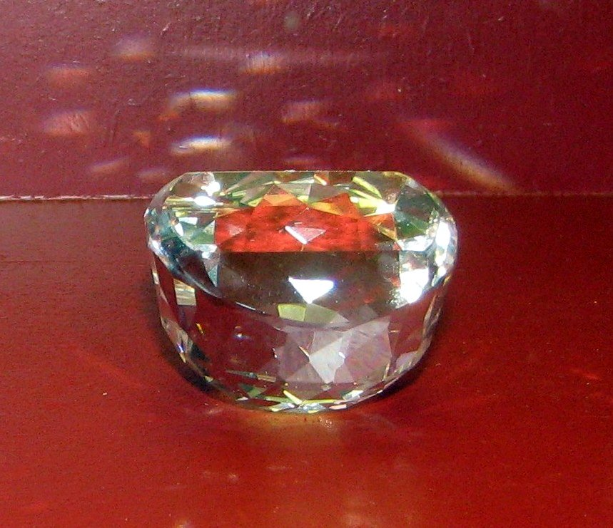 Diamond copy of the famous Orloff (Orlov) diamond from the "Museum Reich der KristalleR in Munich